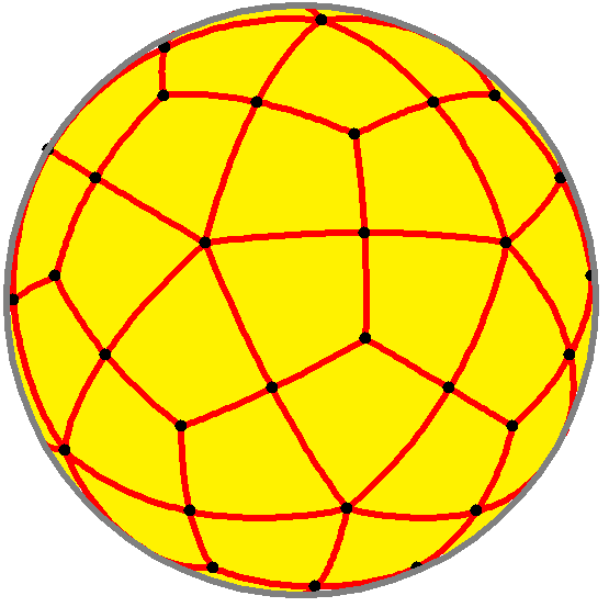 deltoidal hexecontahedron